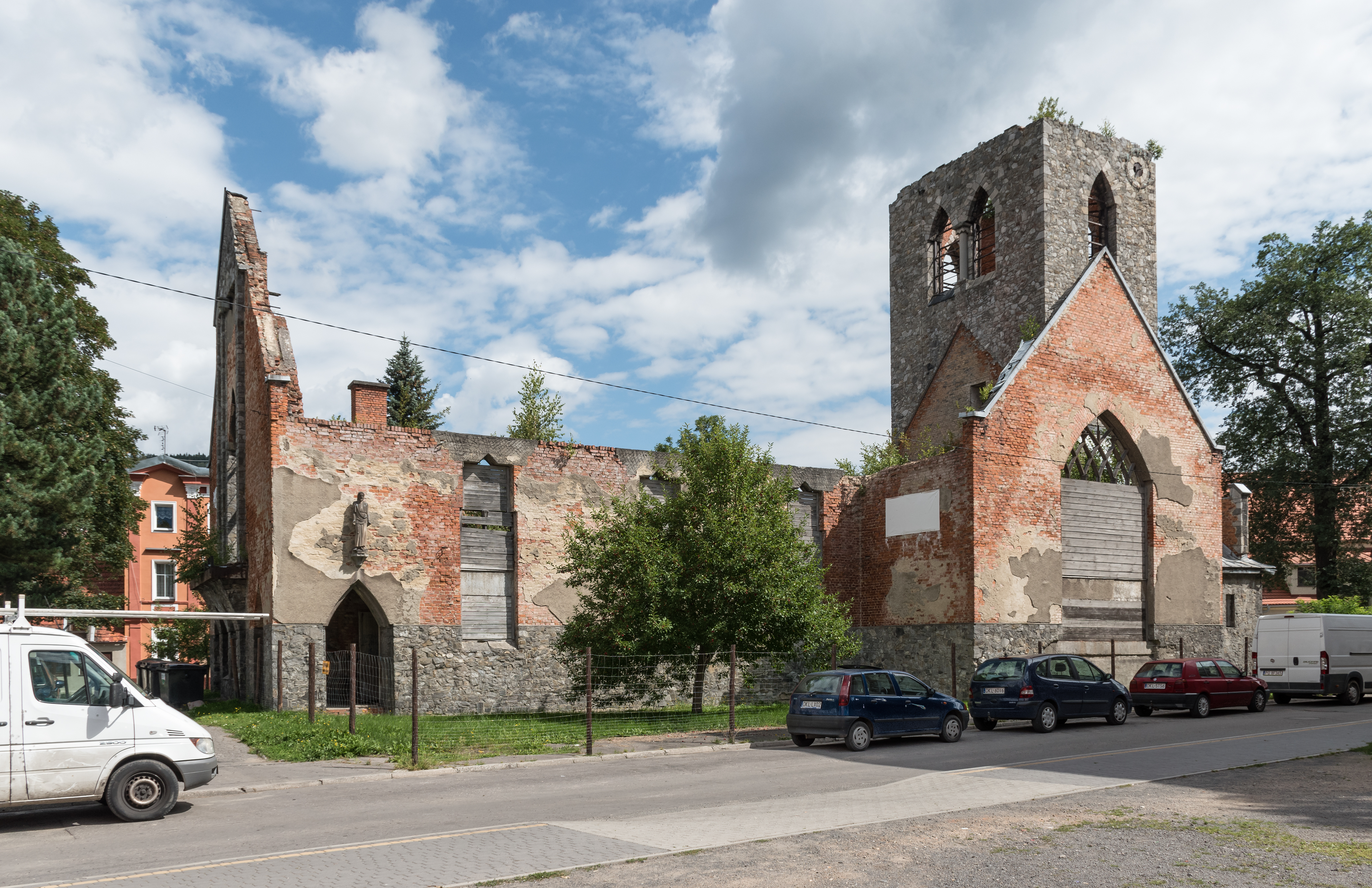 Ruin of evangelical church in Lądek-Zdrój